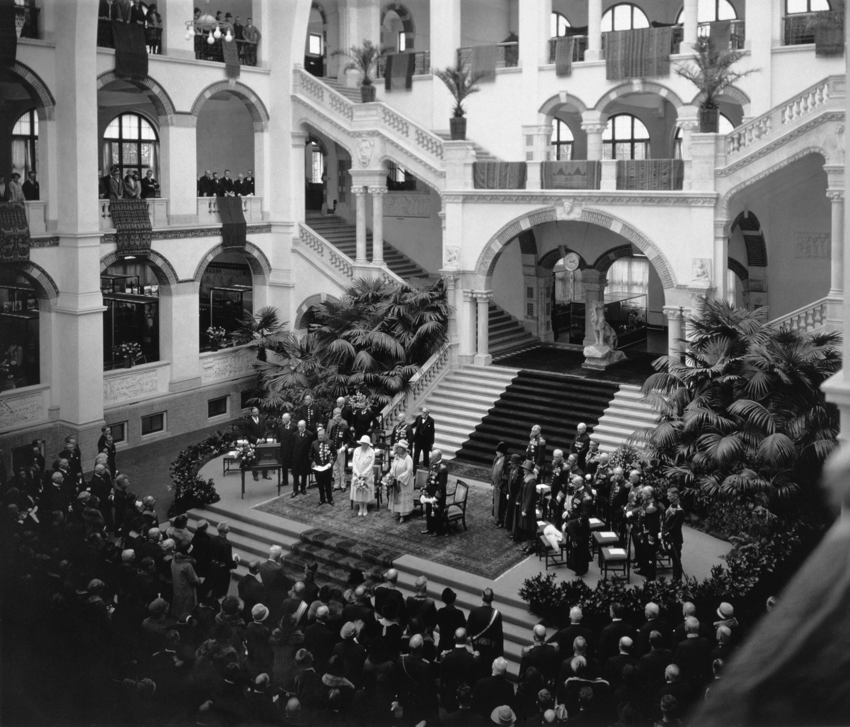 Opening of the Colonial Institute in Amsterdam, in the light hall of the current Tropenmuseum and Royal Institute for the Tropics by Her Majesty Queen Wilhelmina on October 9 1926